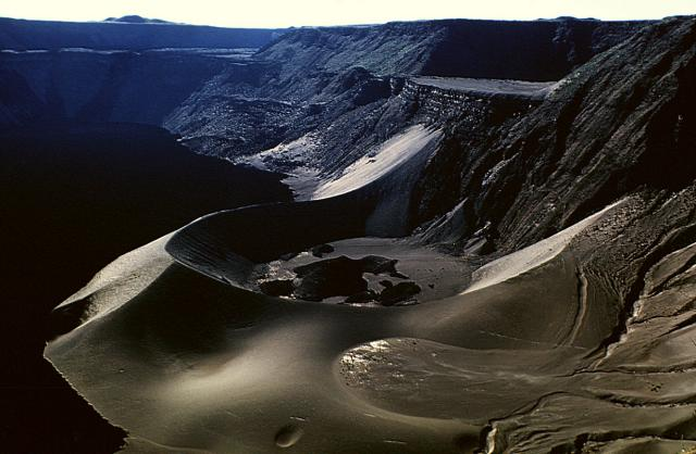 A large tuff cone occupies the ENE side of the summit caldera of Cerro Azul volcano at the SW tip of Isabela Island. A small caldera bench is seen above the cone at the upper right, and a larger bench on the northern side of the caldera is outlined by the light-colored line below the horizon at the upper left. The 4 x 5 km wide caldera is one of the smallest of the Galápagos shield volcanoes, but its 650 m depth makes it one of the deepest. Youthful dark-colored lava flows at the left cover much of the caldera floor.